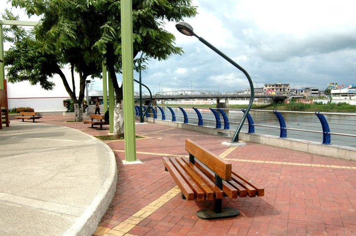 Quevedo